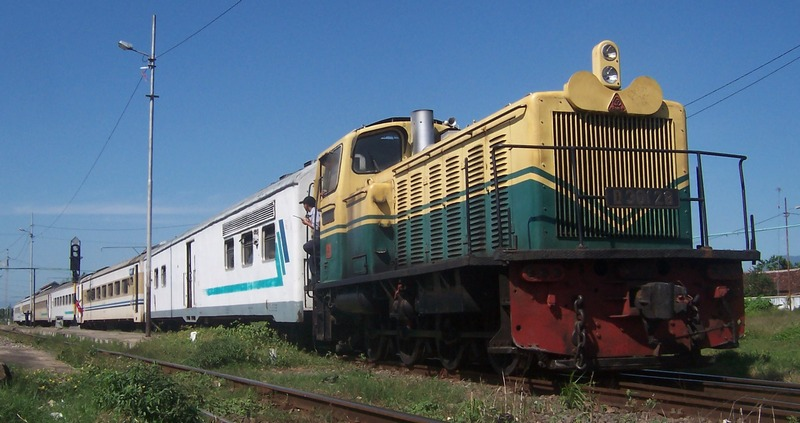 Diesel hydraulic loco D 301 28 from Indonesia